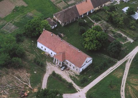 Miszla, Hungary, aerialphotography (Nemeskéry Mansion)